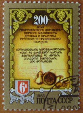 A 1983 Soviet postal stamp commemorating 200-years anniversary of the Russo-Georgian Treaty of Georgievsk. A legend reads in Russian and Georgian: "Two hundred years anniversary of the Treaty of Georgievsk - the first manifesto of the friendship and brotherhood of Russian and Georgian peoples."